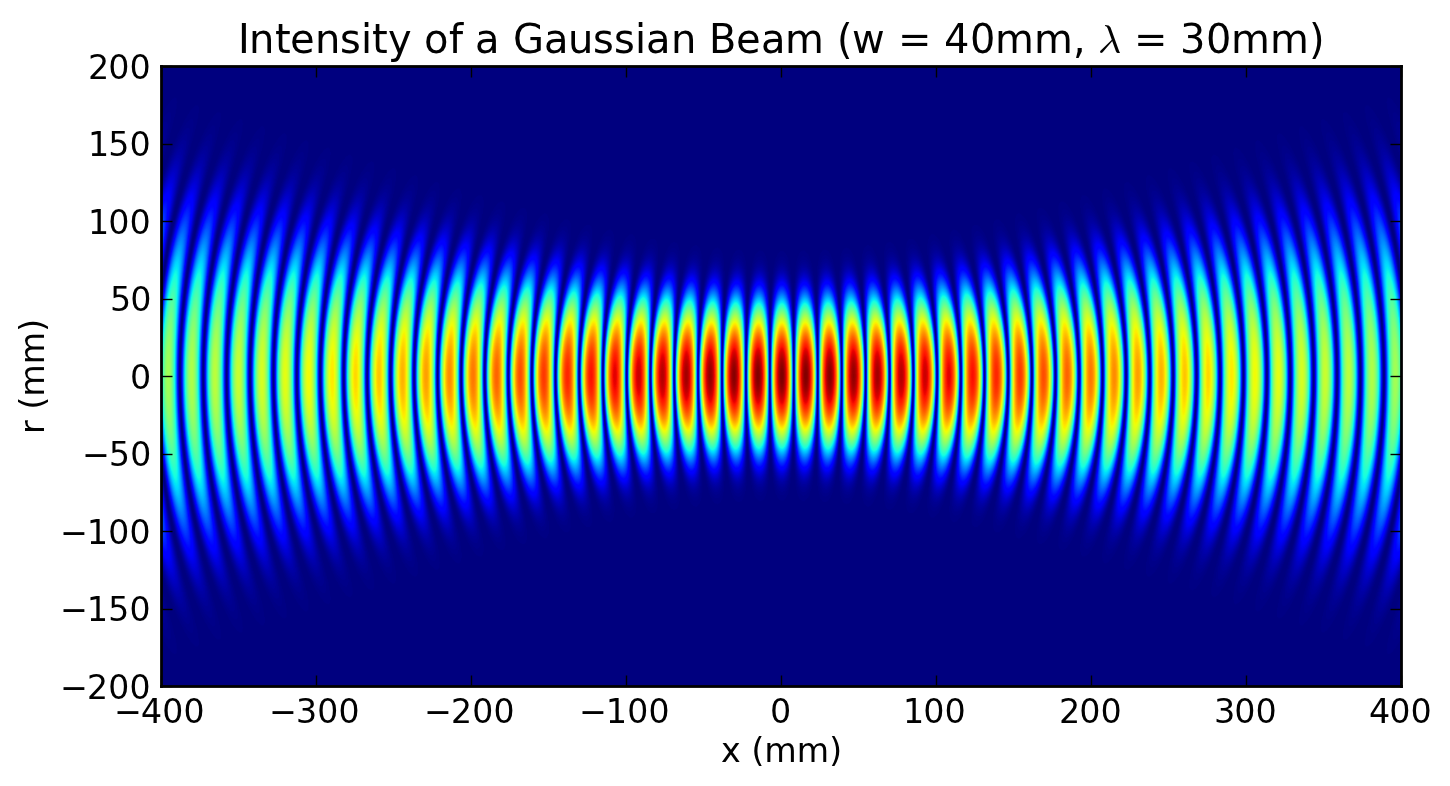 This is a plot of the instantaneous intensity of a Gaussian beam as a function of r and x. Author: Eric Toombs Source: computer rendering via matplotlib This plot was created with Matplotlib.